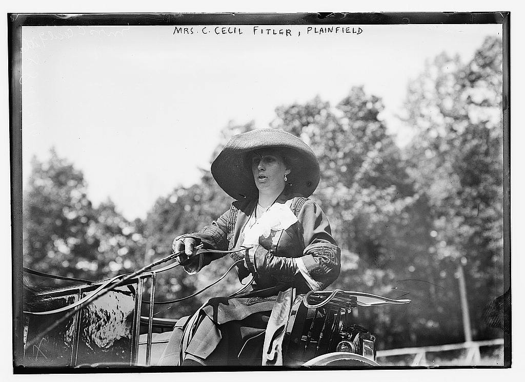 Bain News Service,, publisher. Mrs. C. Cecil Fitler, in Plainfield at the Plainfield Riding and Driving Club in 1911 [between ca. 1910 and ca. 1915] 1 negative : glass ; 5 x 7 in. or smaller. Notes: Title from unverified data provided by the Bain News Service on the negatives or caption cards. Forms part of: George Grantham Bain Collection (Library of Congress). Subjects: Plainfield Format: Glass negatives. Repository: Library of Congress, Prints and Photographs Division, Washington, D.C. 20540 USA, General information about the Bain Collection is available at Persistent URL: Call Number: LC-B2- 2210-8